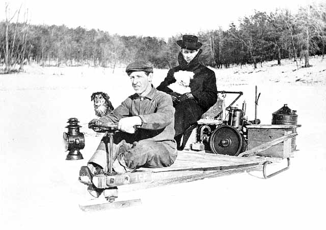 Snowmobile coming down the Mississippi River to Hastings. Location no. GV3.78 r2 Negative no. 52567